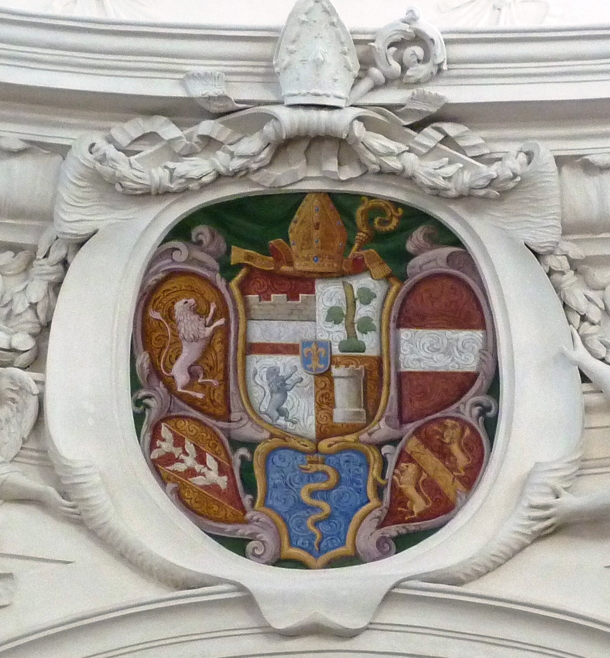 Coat of arms Placidus Zurlauben, Muri Abbey, Switzerland Wappen von Fürstabt Placidus Zurlauben, Kloster Muri AG, Schweiz